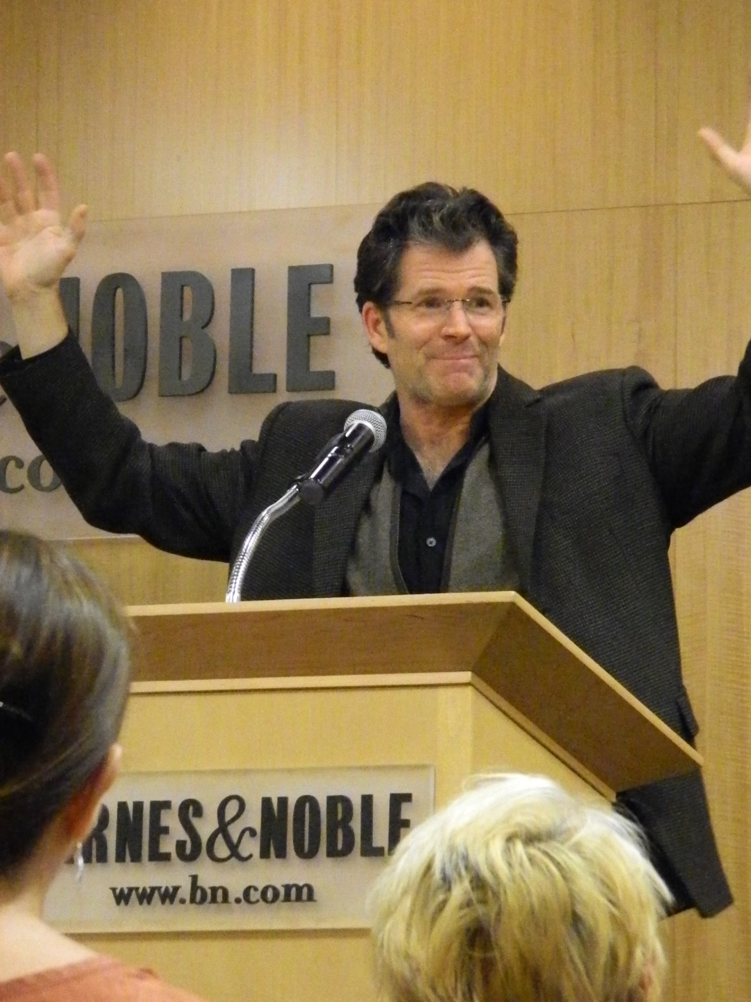 Dubus engaging New York Barnes & Noble gathering Oct. 15, 2013.